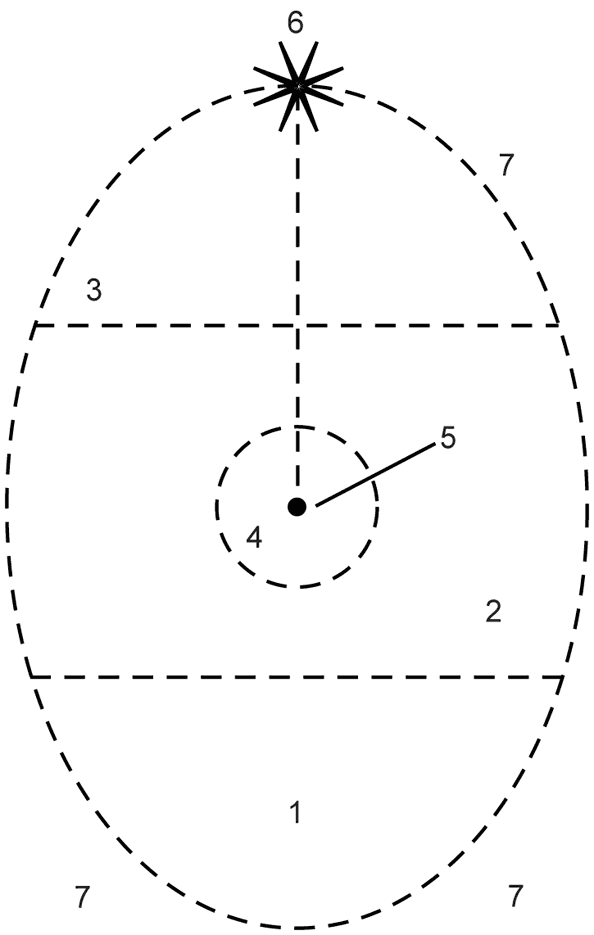 Psychosynthesis Egg Diagram, formulated by Roberto Assagioli. It depicts various aspects of consciousness as described in Psychosynthesis. 1.the Lower Unconscious 2.the Middle Unconscious 3.the Higher Unconscious 4.the Field of Consciousness 5.the Conscious Self, or "I" 6.The Higher Self, or Transpersponal Self 7.the Collective Unconscious